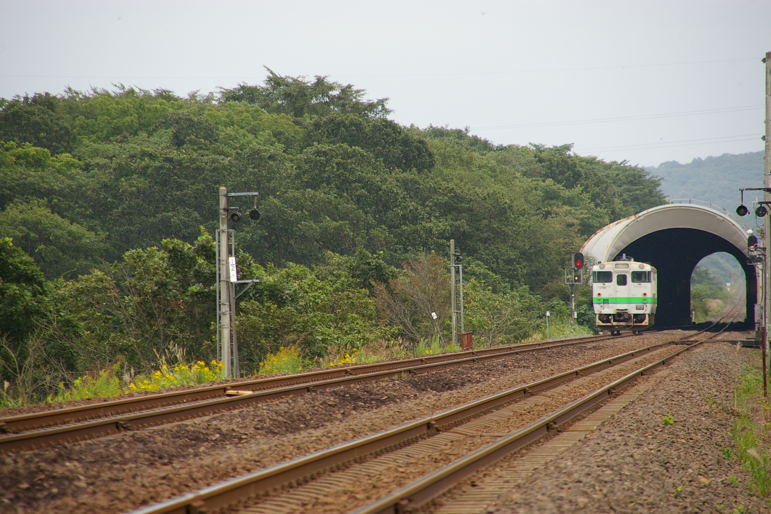 JR hokkaido komasato signal cabin.